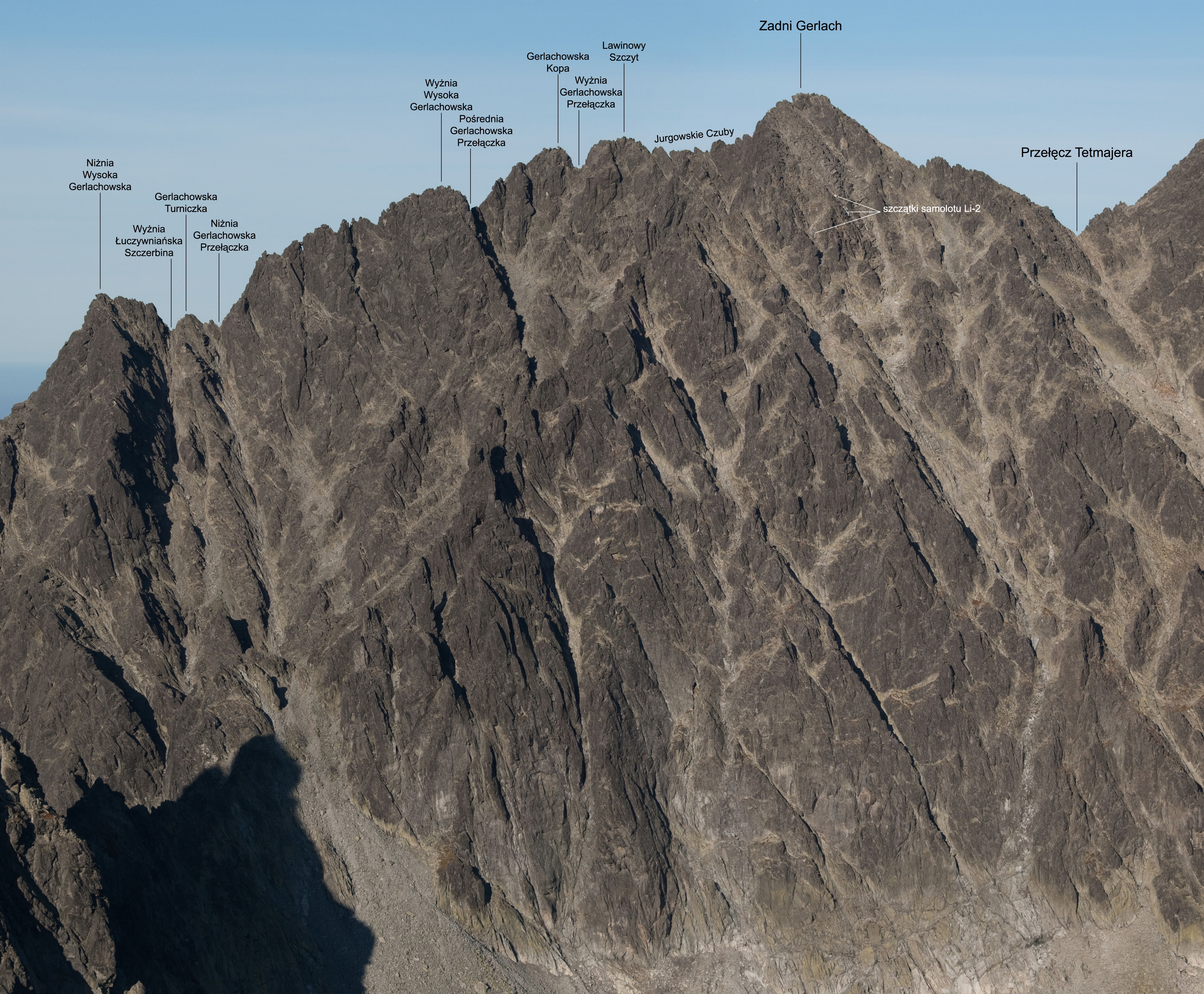 The massif of Zadný Gerlachovský štít (Polish captions).